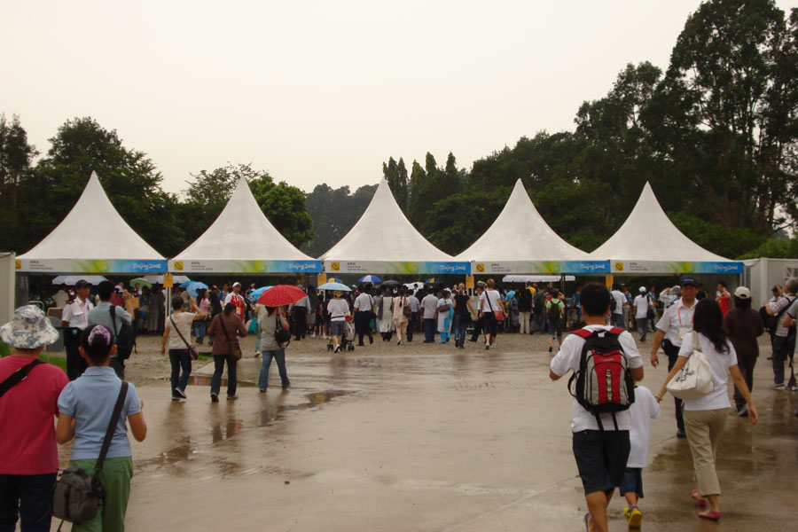 Beijing 2008 Olympic Game - Equestrian Event - Cross-Country Test of the Eventing Competition, held on The Olympic Equestrian Venue (Beas River) on 2008.8.13